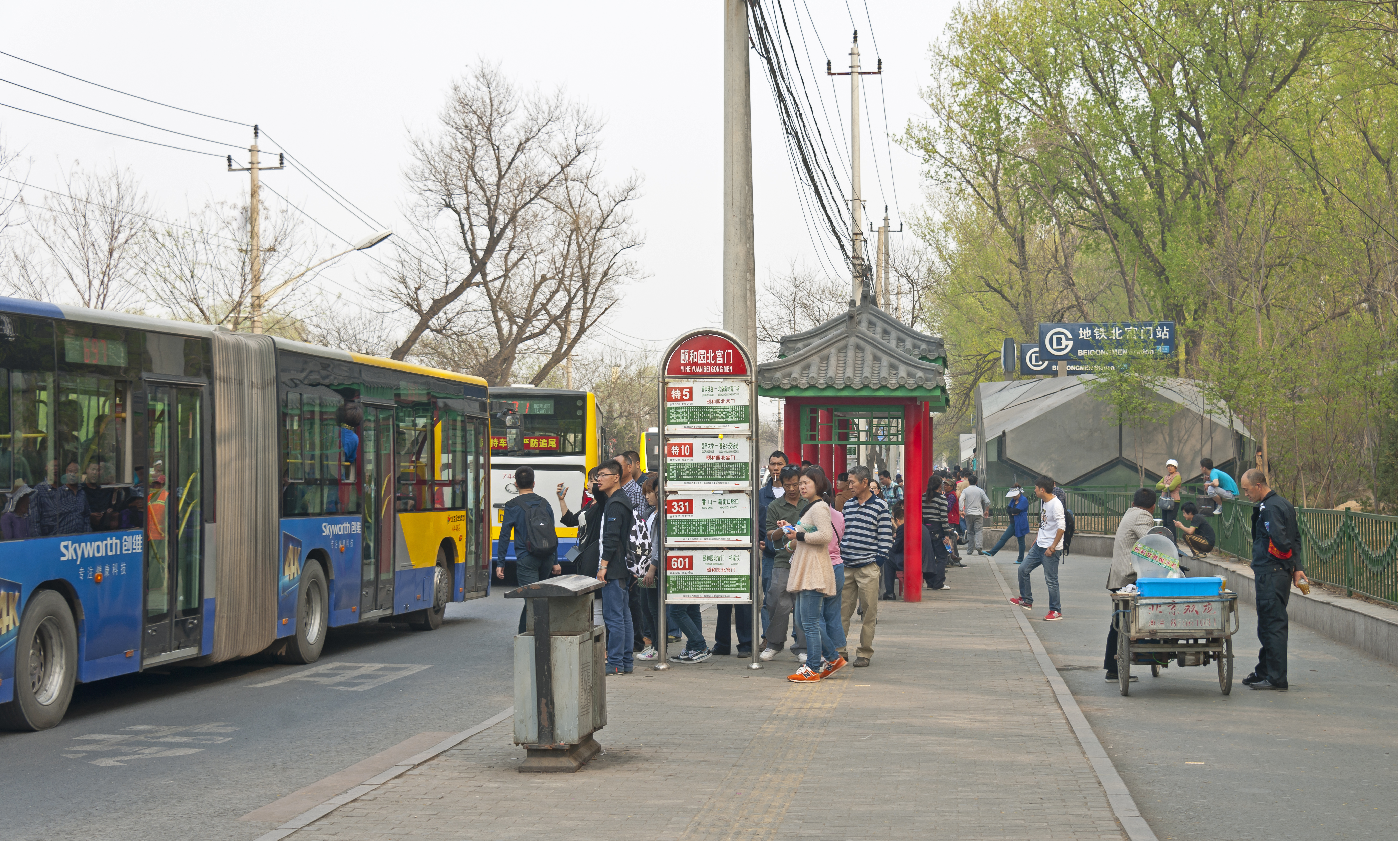 Bus stop at Beigongmen Station near Summer Palace in Beijing's Haidian District.